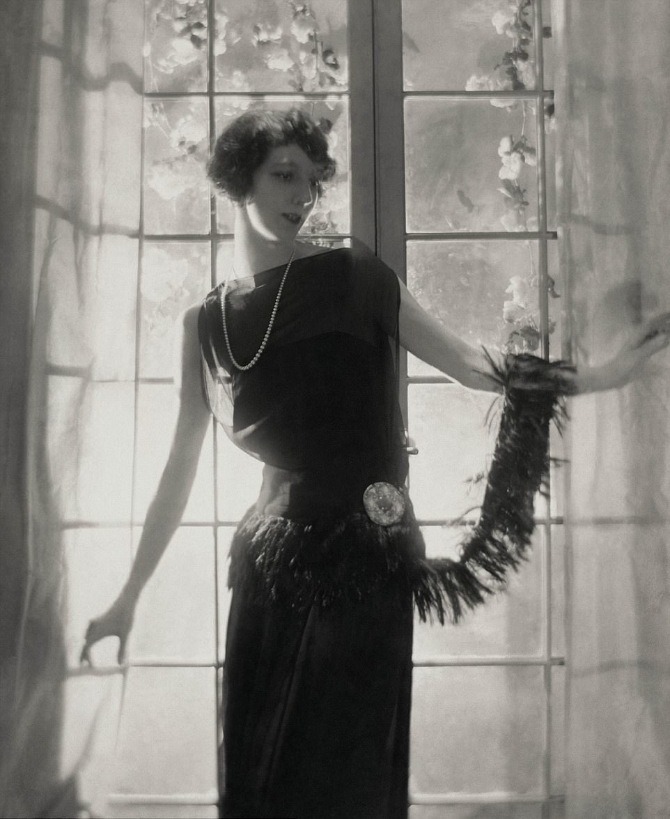 Ballerina Desiree Lubovska wearing a dark dress in Georgette crepe, with fringed waist, by Jean Patou photography by Adolf de Meyer ca 1921